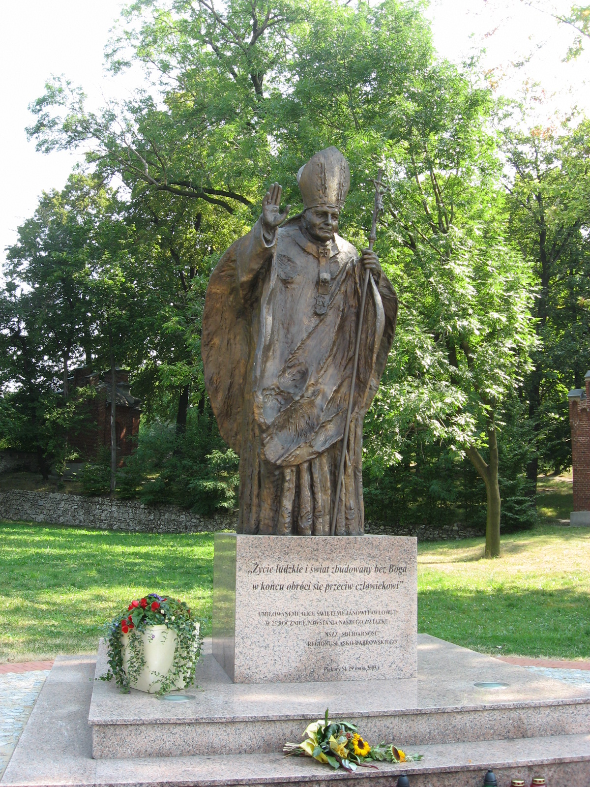 Statue of John Paul II, Piekary Śląskie, Poland